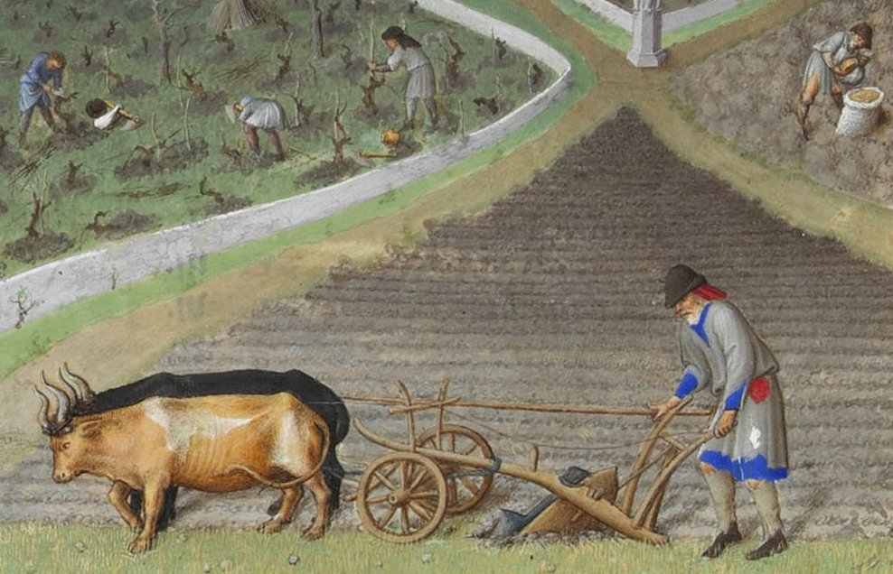 First farm work of the year, sowing and ploughing and suchlike. The castle in the background is Lusignan. Detail from the calendar Les très riches heures from the 15th century. This is a detail from the painting for March.